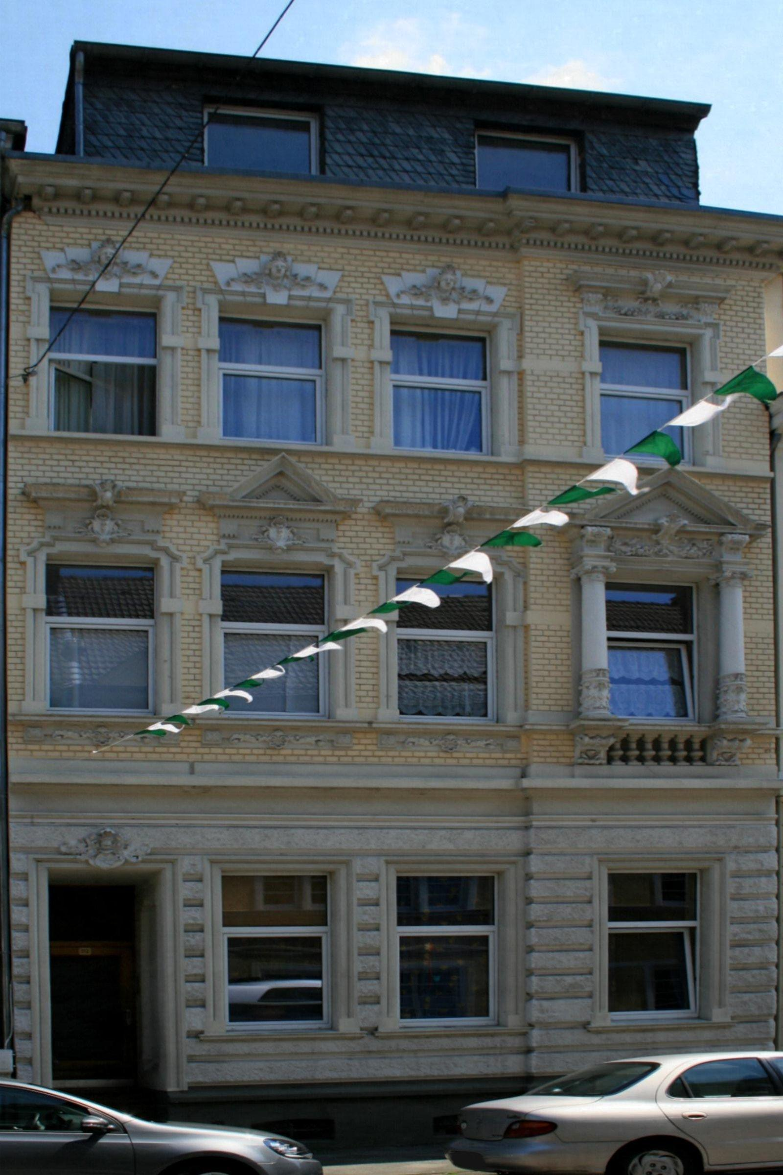 Cultural heritage monument No. R 007 in Mönchengladbach